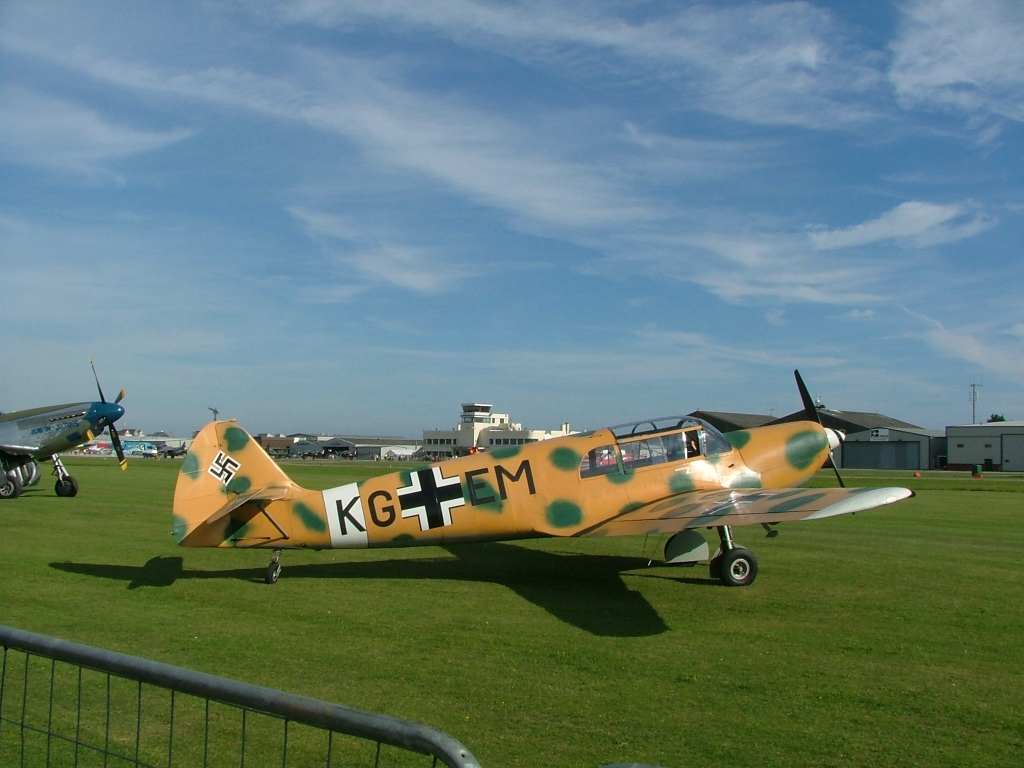 Yes this Messerschmitt 108 was called the Taifun (Typhoon) by its manufacturers.